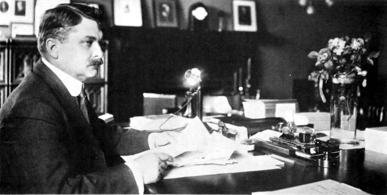 Samuel Wesley Stratton, 1905